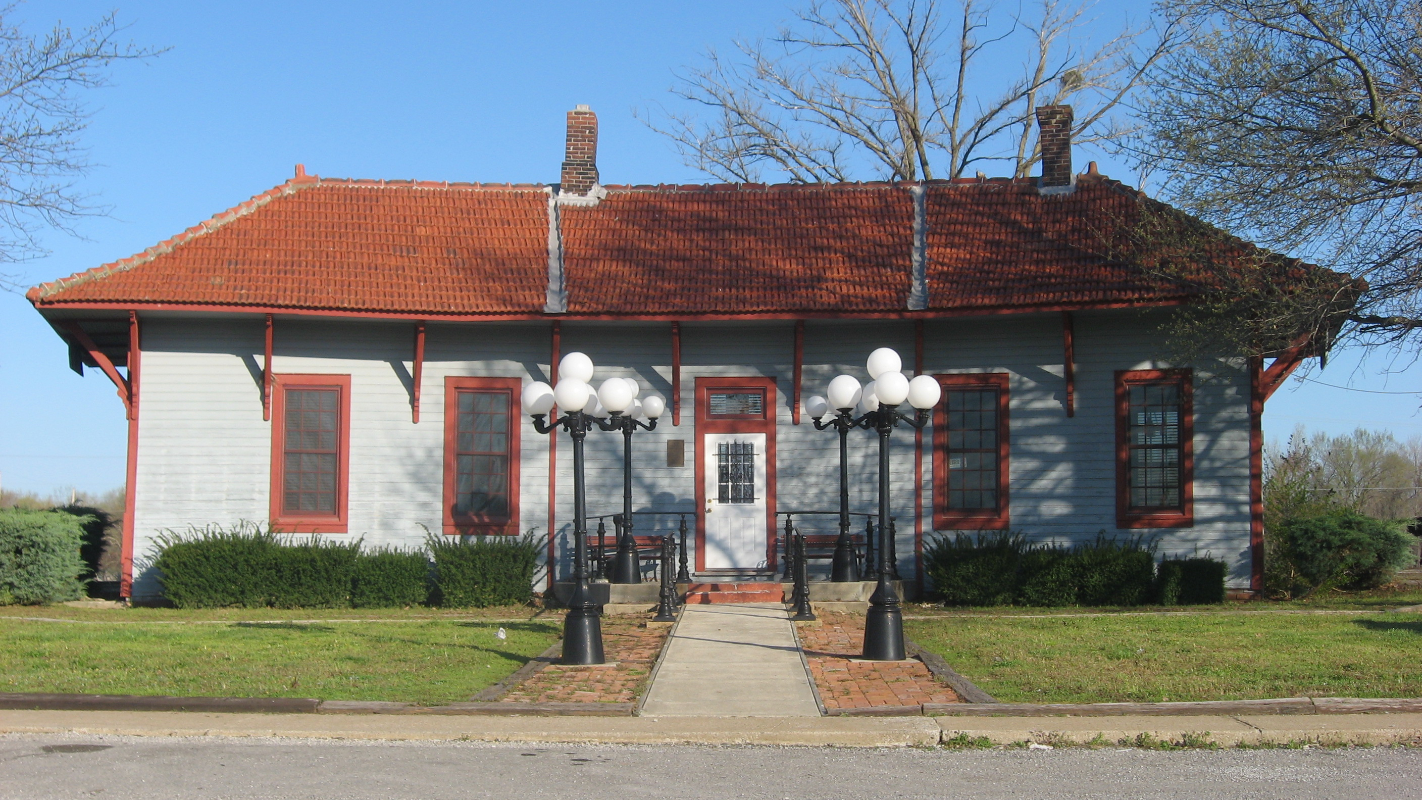 Front of the former Tamms Depot (now Village Hall), located on Front Street north of Russell Avenue in Tamms, Illinois, United States. Built in 1900, it is listed on the National Register of Historic Places.